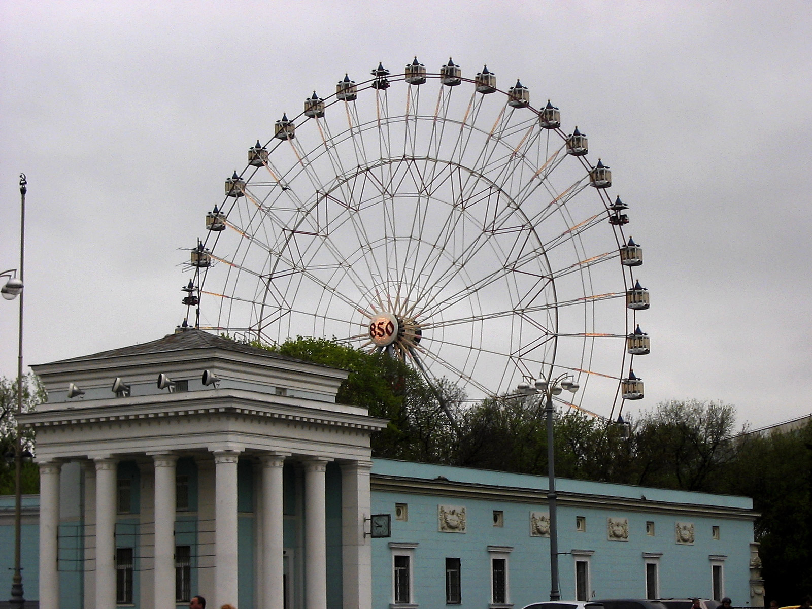 Moscow, VDNH. joy-wheel